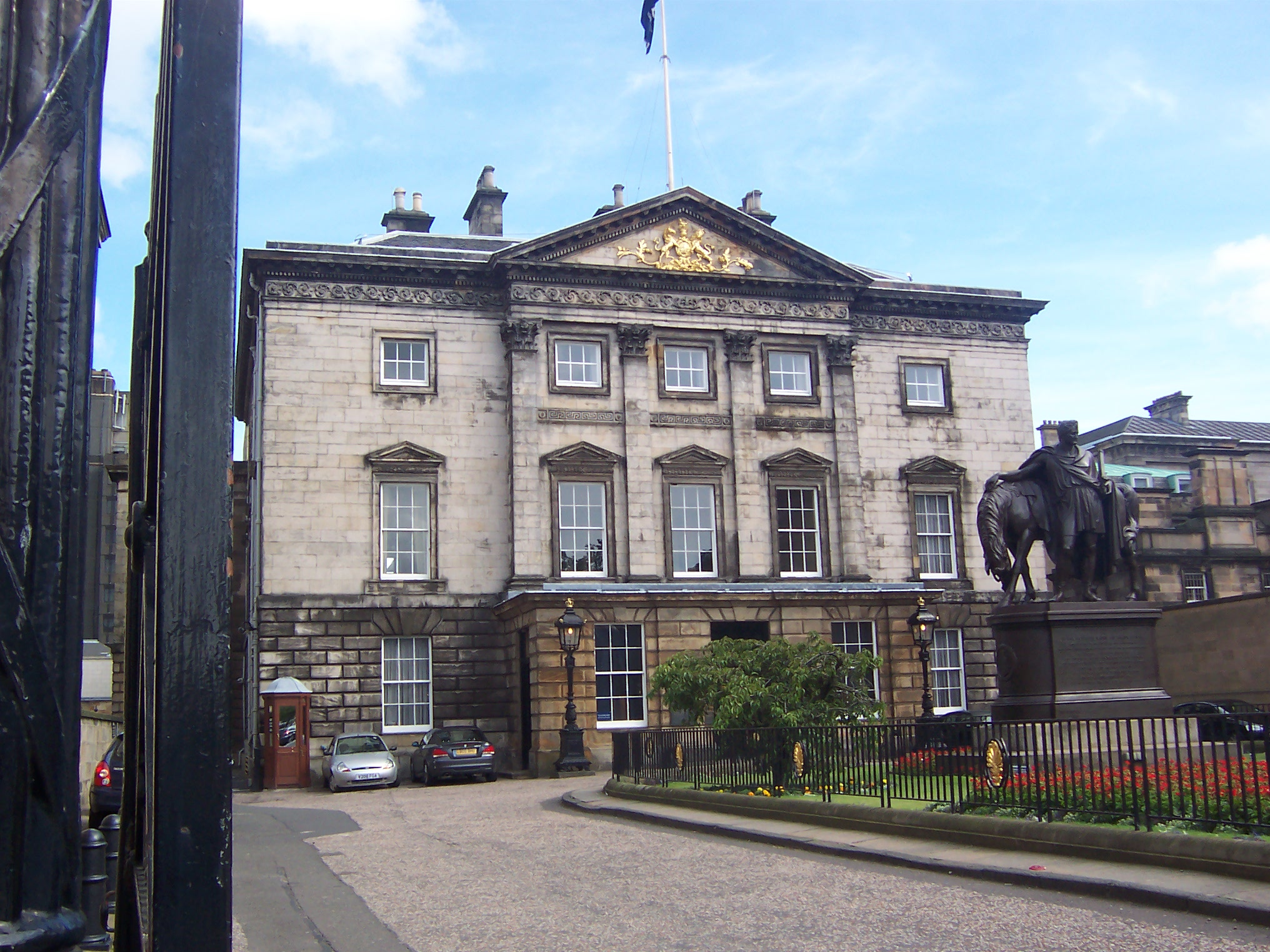 The headquarters of the Royal Bank of Scotland in Edinburgh, Scotland. The building was originally built as a mansion for Sir Lawrence Dundas by Sir William Chambers in 1774.